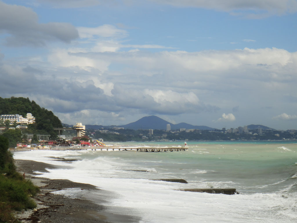 Sochi, Dagomys - Black sea storm 2013-07-02